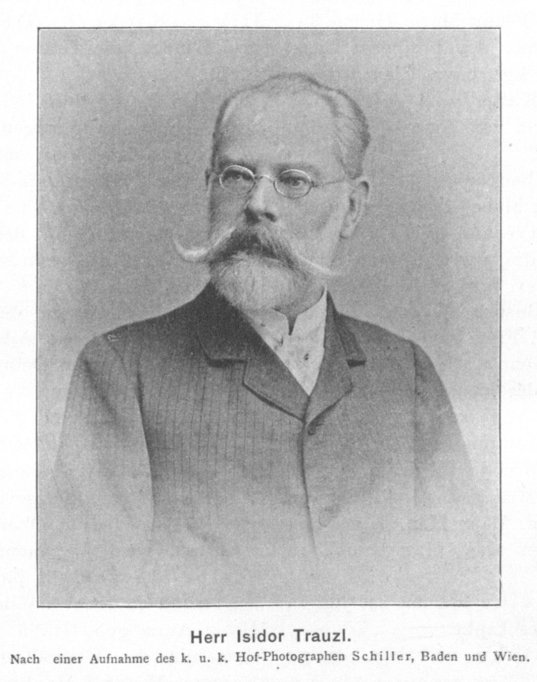 Portrait of Isidor Trauzl (1840-1929), Austrian chemist and industrialist.